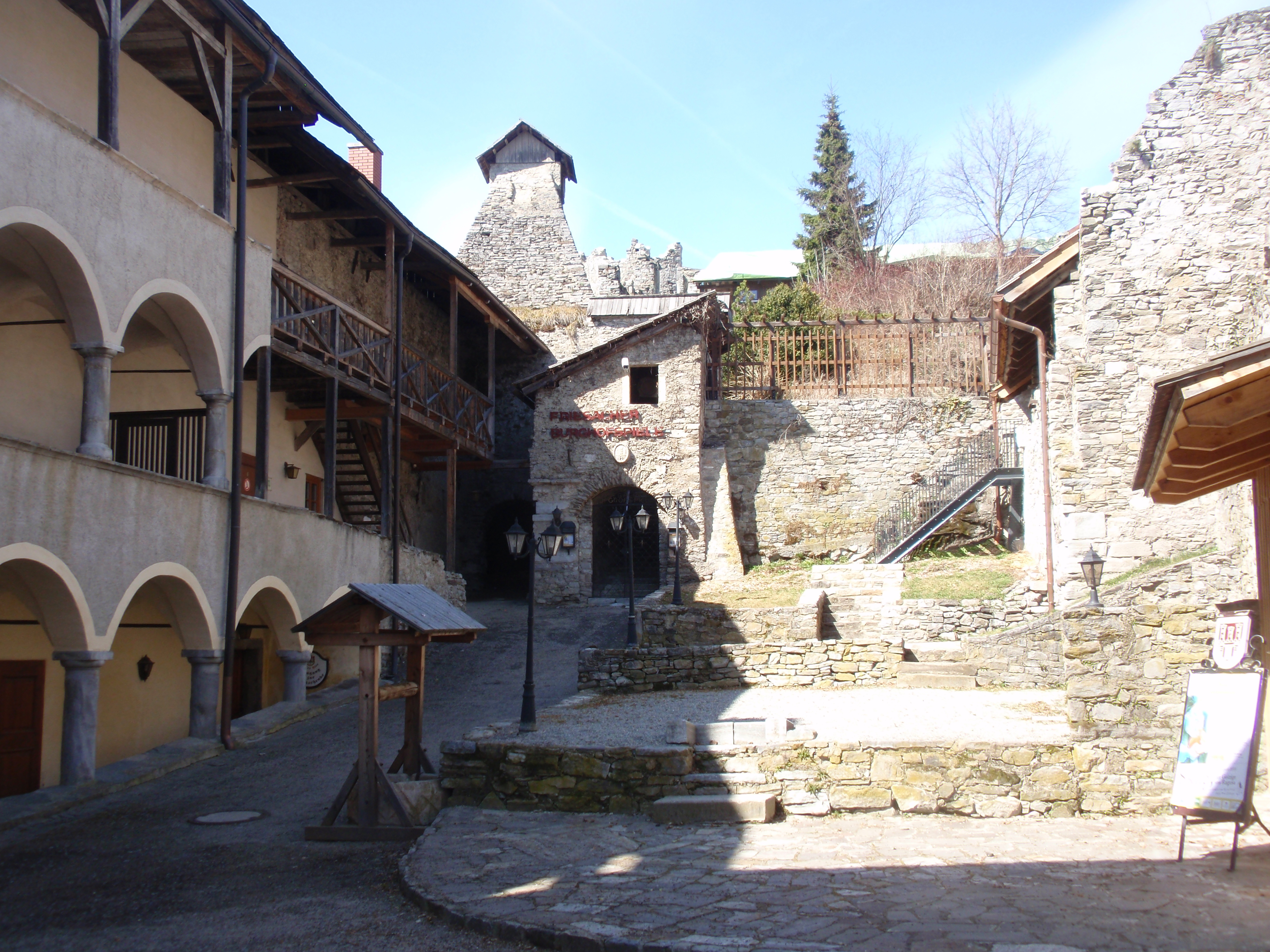 Castle ruin Petersberg, municipality Friesach, district Sankt Veit an der Glan, Carinthia, Austria, EU